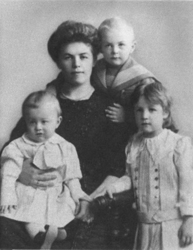 Ivan Yefremov (centered) with his mother, brother and sister.